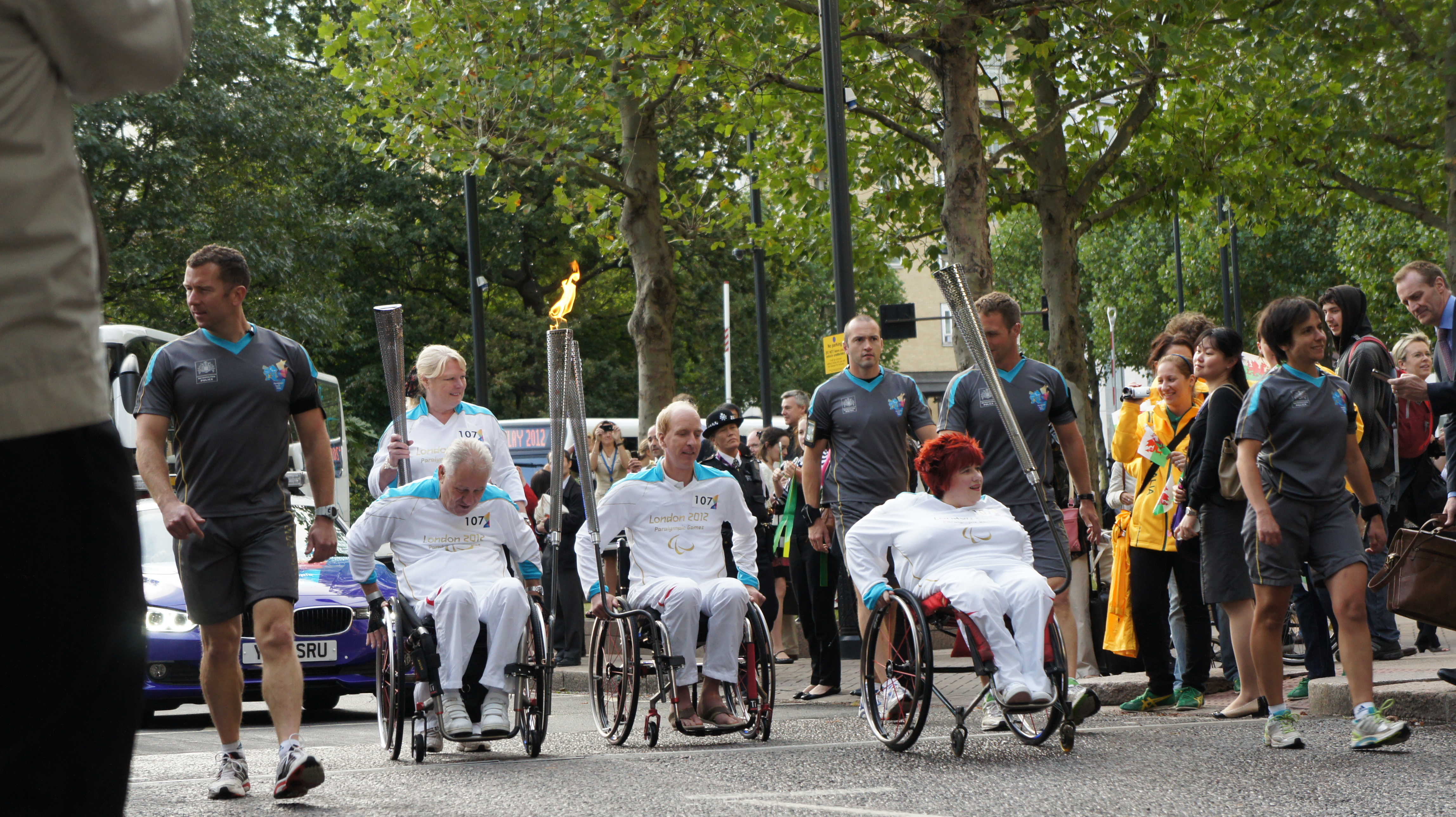 Wheelchair-bound torchbearers on route to the 2012 Summer Paralympics. The central person in a wheelchair is Simon Richardson (Welsh cyclist), double gold medal winner at the 2008 Paralympic Games in Beijing. He talks about being a torch bearer at Canary Wharf on his blog and it is reiterated on the BBC News.